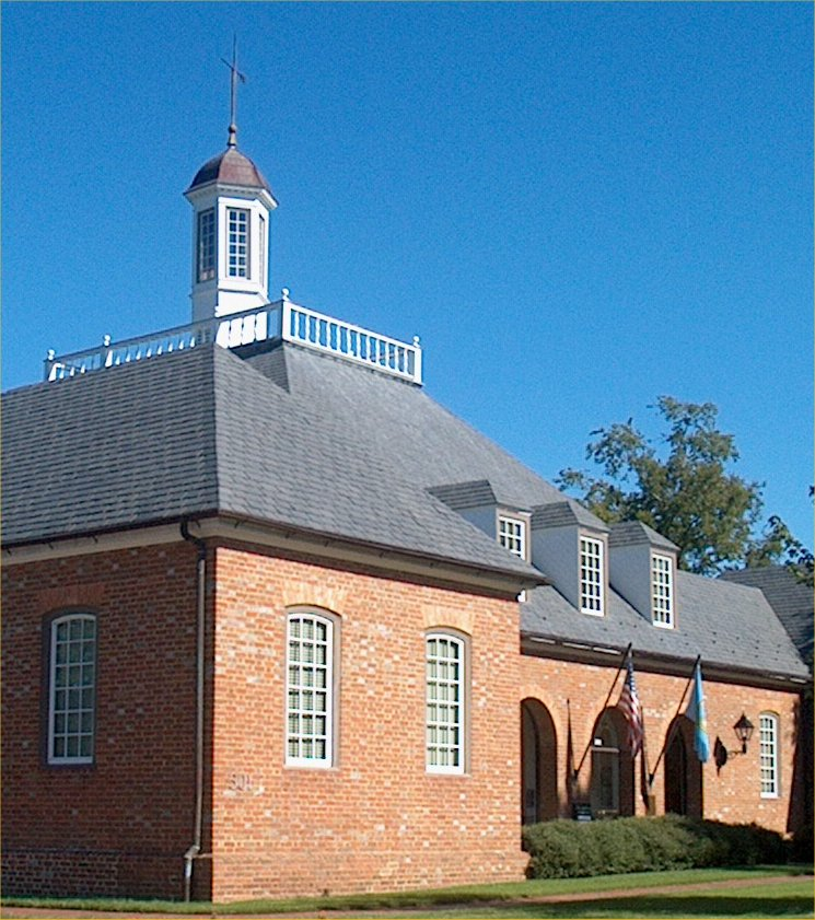 York Hall in Yorktown, Virginia. © 2005 Wyatt Greene